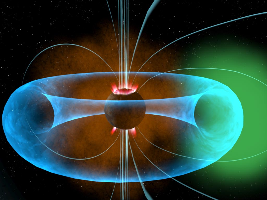 This is Image 4 of the NASA article. These images are taken from a computer animation illustrating the Earth's space storm shield in action. The solar wind, a thin, high-velocity electrified gas, or plasma, blows constantly from the Sun at an average speed of 250 miles per second (400 kilometers/sec). It is represented in Image 1 as a stream of yellow particles flowing from the Sun. The solar wind impacts the Earth's magnetic field, represented by the blue lines in Image 2. As the solar wind flows past the Earth's magnetic field, it generates enormous electric currents that heat Earth's space storm shield -- a layer in the Earth's electrically charged outer atmosphere (ionosphere) -- causing the shield to eject electrically charged oxygen atoms (oxygen ions) into space. The expelled oxygen ions are represented by the green particle streams in Image 3. The ejected oxygen ions gain tremendous speed as they leave the atmosphere, become trapped by the Earth's magnetic field and ultimately encircle the Earth, where they form a billion-degree plasma cloud around the planet, represented by the red cloud in Image 4. The blue doughnut shape in Image 4 represents the high-speed flow of these particles around the Earth. The red "ring of fire" around the Earth's polar regions represents the contribution of the particles to the aurora (the northern and southern lights).